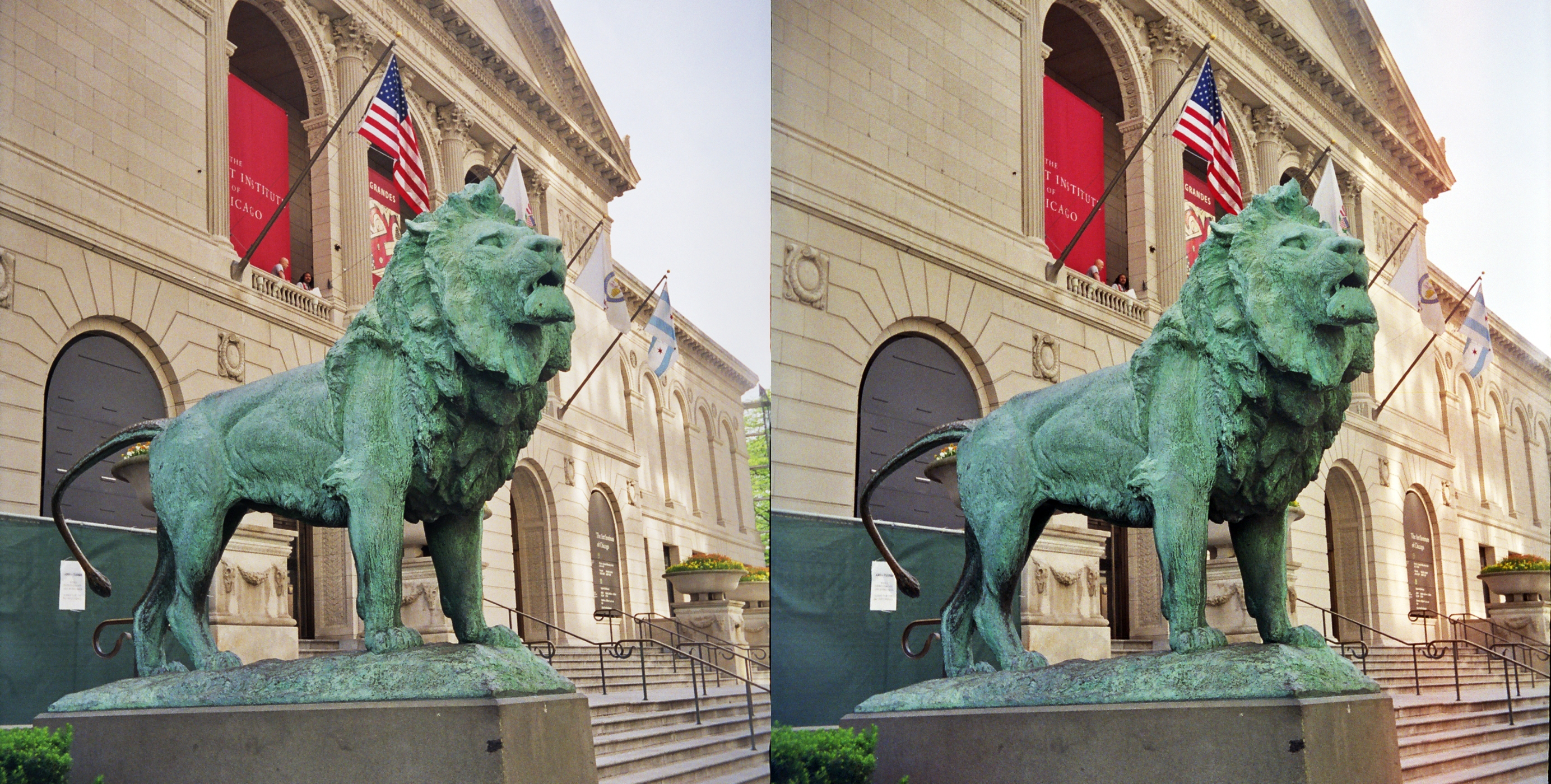 Stereo photo pair (parallel format) of Edward Kemeys's lion statue outside the Art Institute of Chicago, in Illinois.